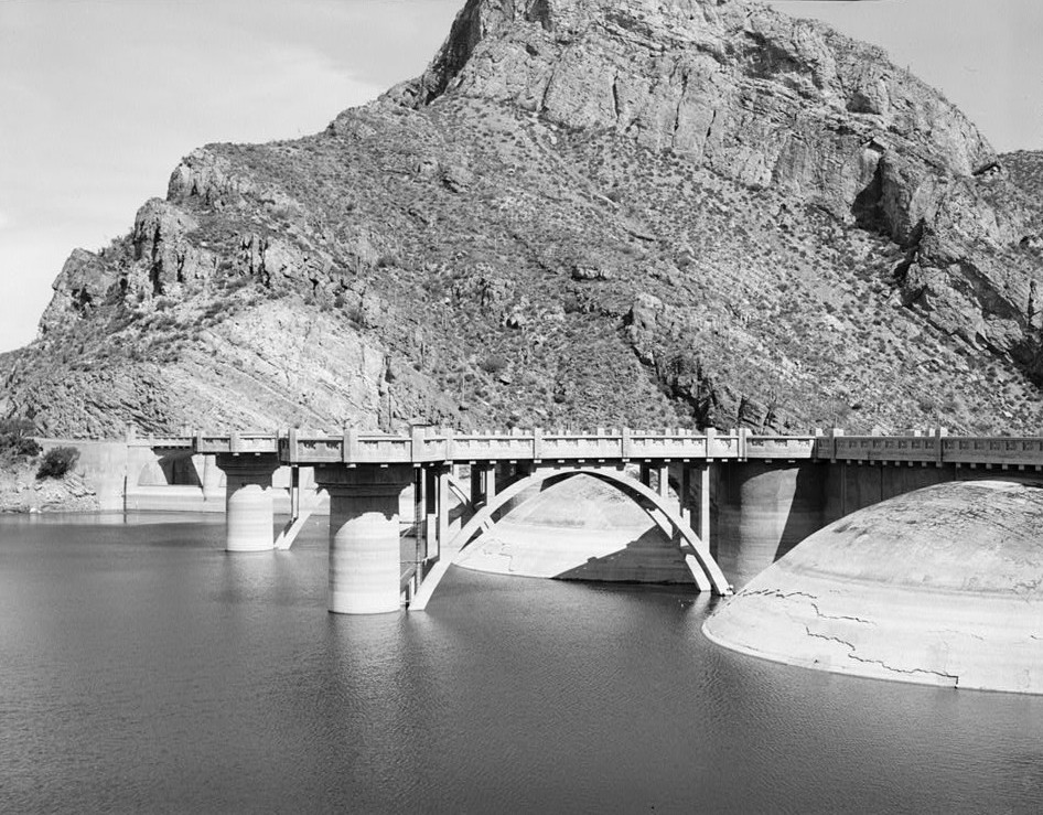 View of upstream face of COOLIDGE DAM — showing INTAKE TOWERS, BRIDGES, DOMES, and SAN CARLOS LAKE (reservoir). Part of the San Carlos Irrigation Project, located on the Gila River, in Gila County, Arizona. Image (2010): HAER—Historic American Engineering Record images of Arizona; HAER ARIZ,11-PERI.V,1-43. Credits Dam, Coolidge